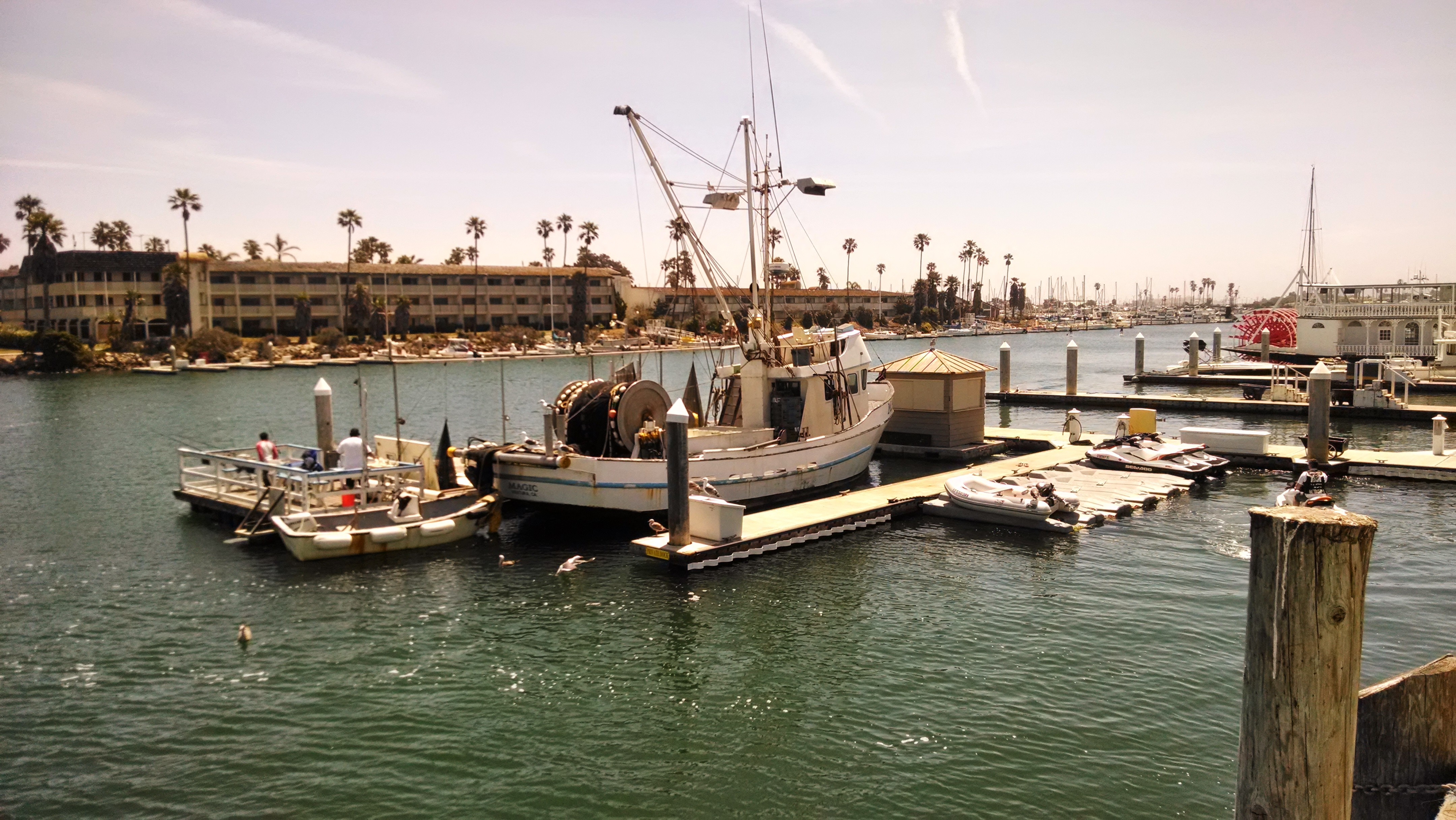 Fishing boat taken from commercial fishing boat unloading pier facing southeast with hotel in background